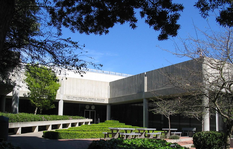 US National Archives, Pacific Region, San Francisco branch located in San Bruno California, USA. It stores records from Northen and central California, Hawaii, and territories in the Pacific. Also preserved are the documents on Asian-Pacific immigration, the 1906 San Francisco earthquake and other historical events happened in the area.